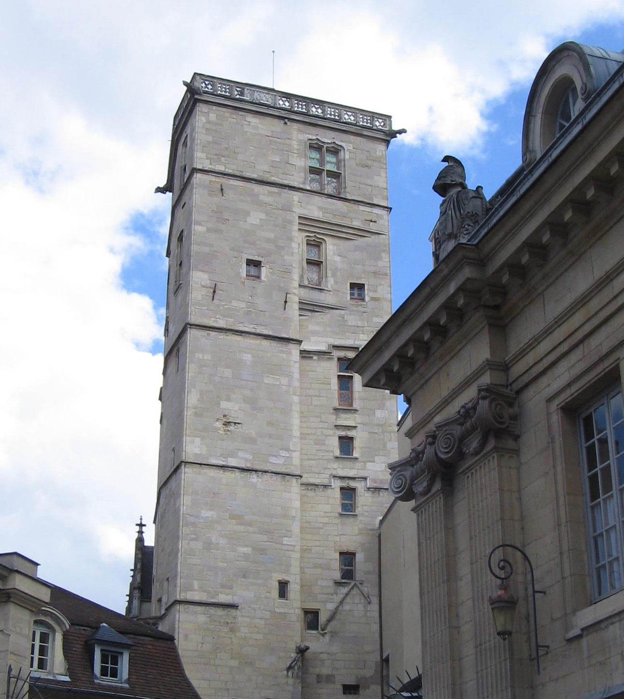 Dijon : Palace of the Dukes of Burgundy, tour Philippe le Bon as seen from the rue des Forges (picture is pointing to the East).